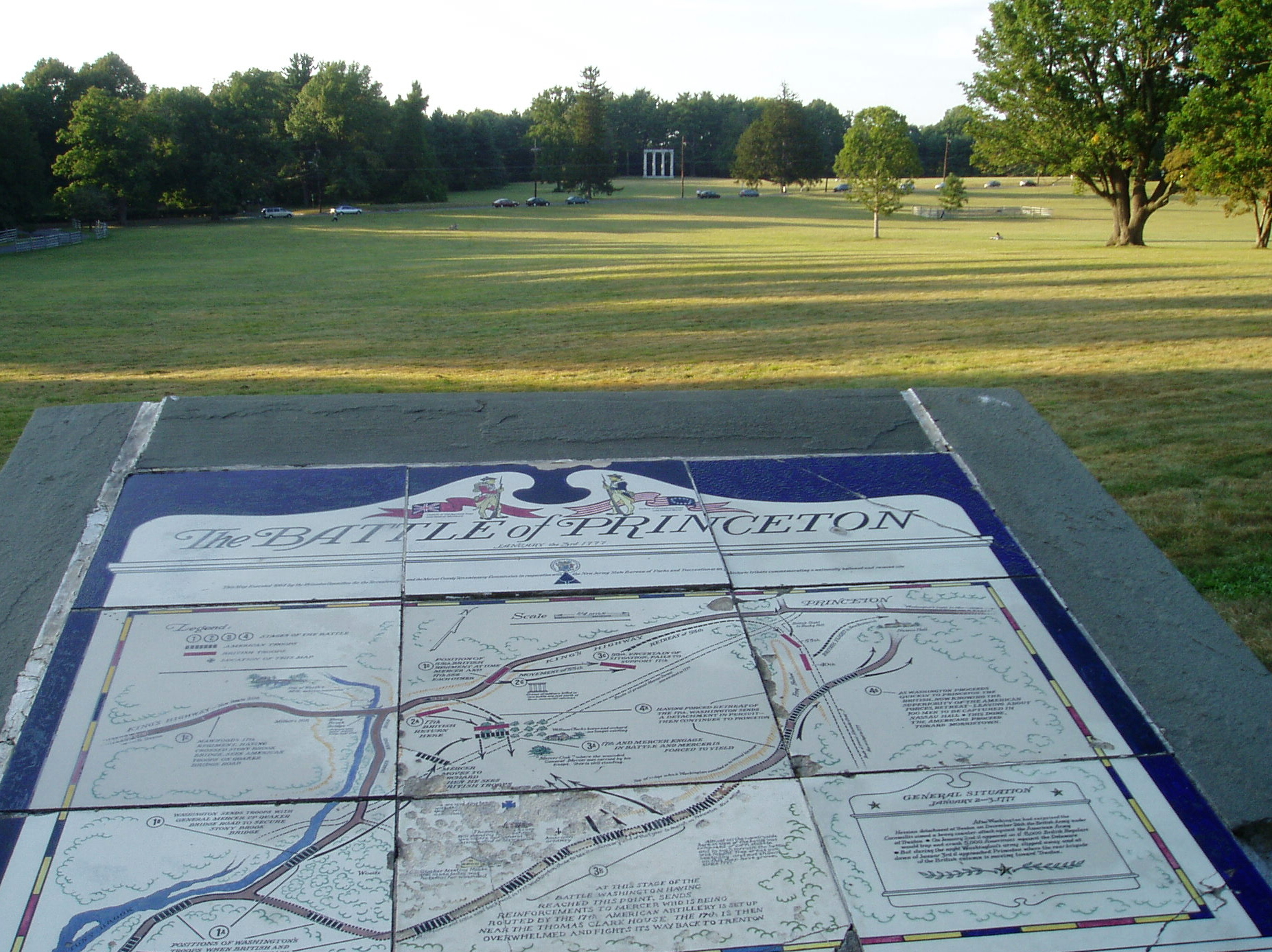 Battlefield, Princeton, 2005